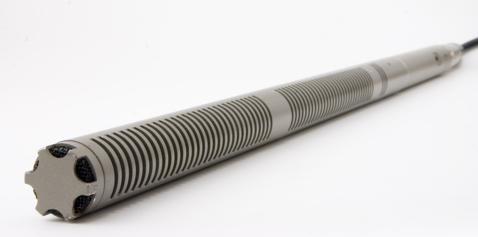 Audio-Technica AT8015a shotgun microphone from the 1990's. Camera: Canon EOS 300D with Tamron 28-75 mm f/2.8 lens. Created by User:PJ and User:Piko.